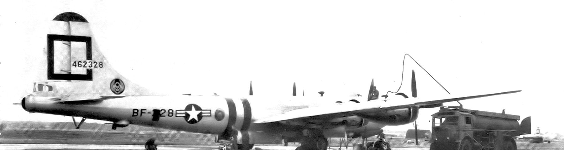 307th Bombardment Group Boeing B-29A-75-BN Superfortress 44-62328 SAC 8th Air Force, at RAF Lakenheath, England during the Berlin Airlift, 1948